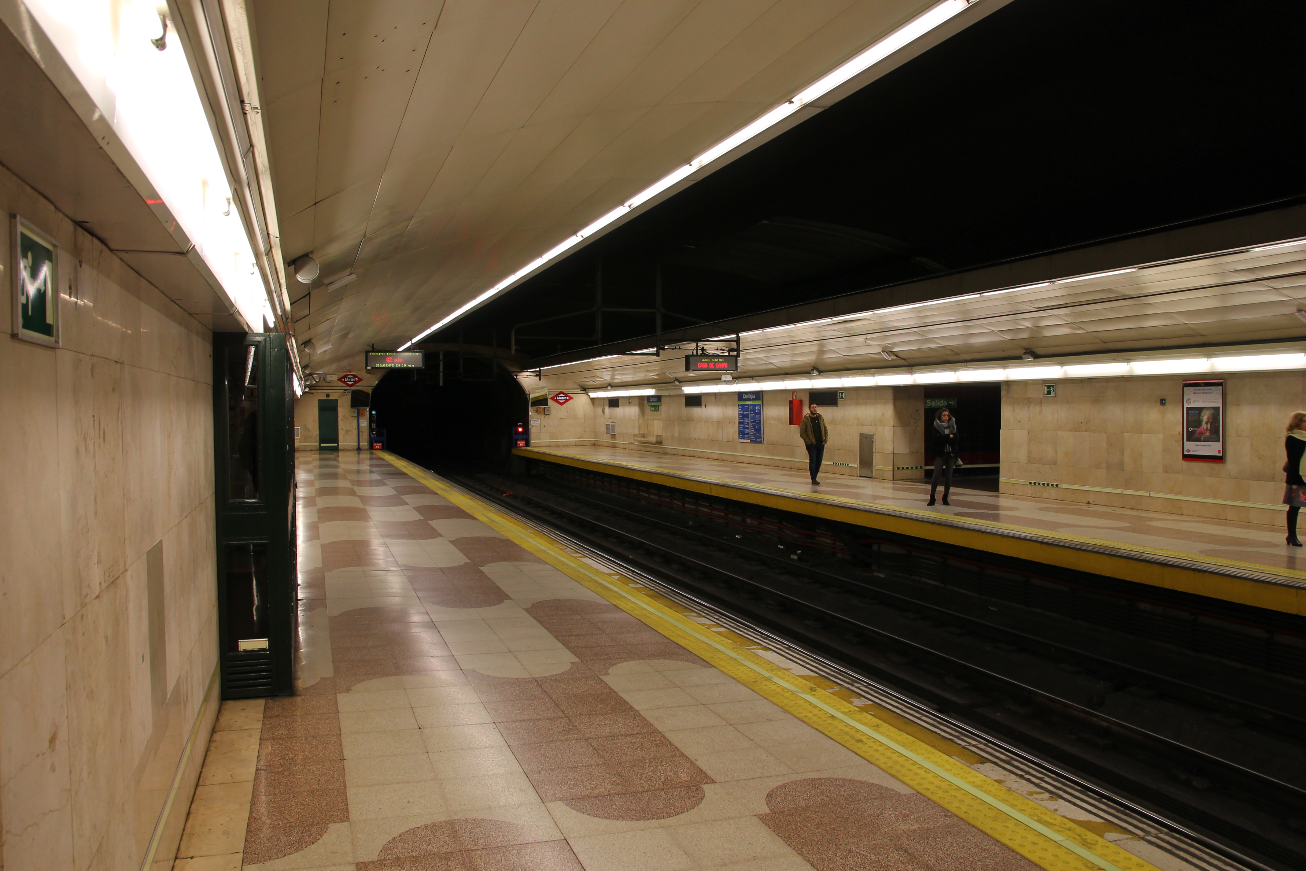 Estación de Canillejas